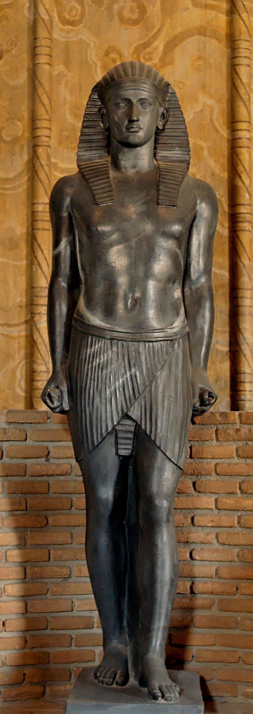 Antinous as Osiris. Copy of a statue belonging to the Albani Collection, second part of Hadrian's reign, ca. 131–138 CE. The original is exhibited at the Staatliche Sammlung Ägyptischer Kunst in Munich.